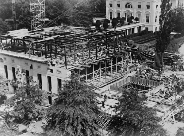 West Wing reconstruction in 1934.